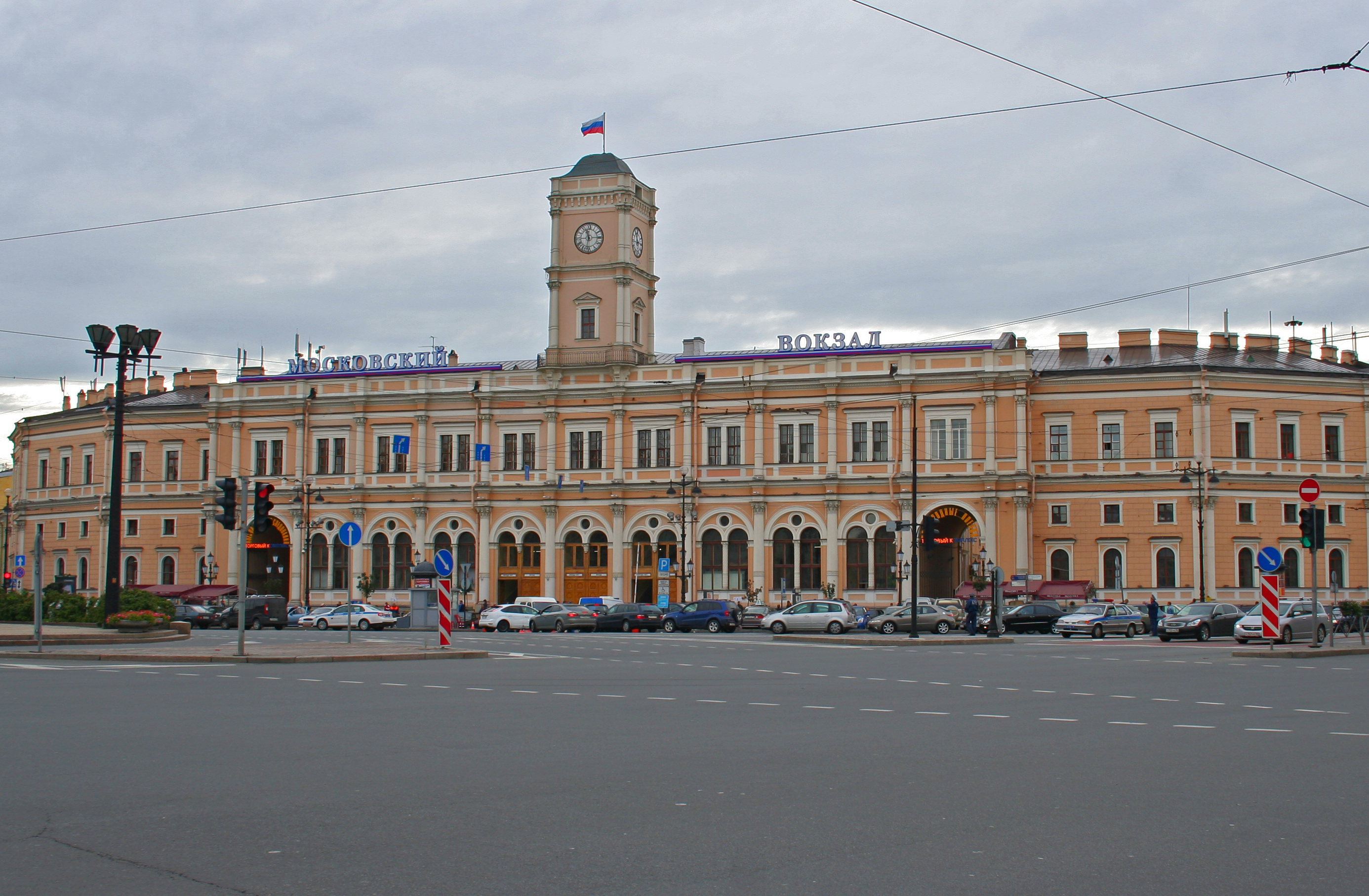 The Moskovskiy rail terminal in Saint Petersburg